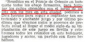 Entrevista Ybarra